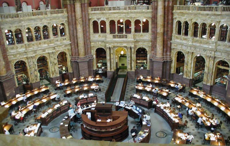 The Library of Congress main reading room, Jefferson Building